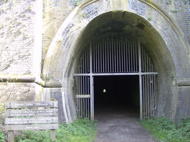 South portal of Oxendon tunnel The tunnel is on the Brampton Valley Way. It is accessible for walkers and cyclists, although cyclists are encouraged to dismount. Horse riders are directed via an alternative route. 418 metres, 450 yards long, and completely straight so the far end is visible, although it is still very dark in the middle.